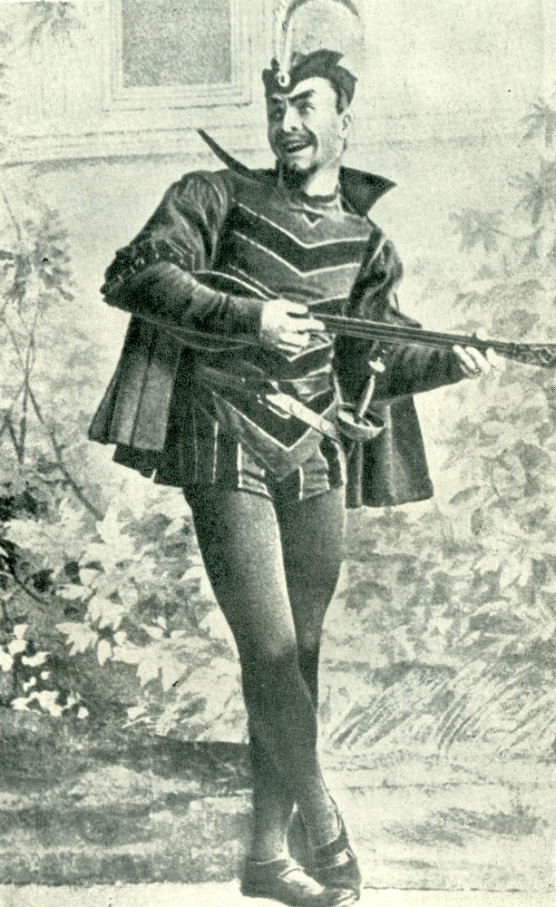 Russian bass, Feodor Chaliapin (1873-1938)